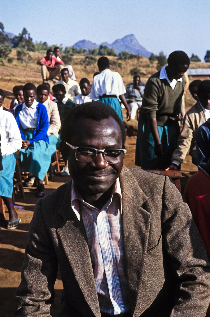 The school greets European guests in 1990 who support with donations. In the background the Livingstone range.